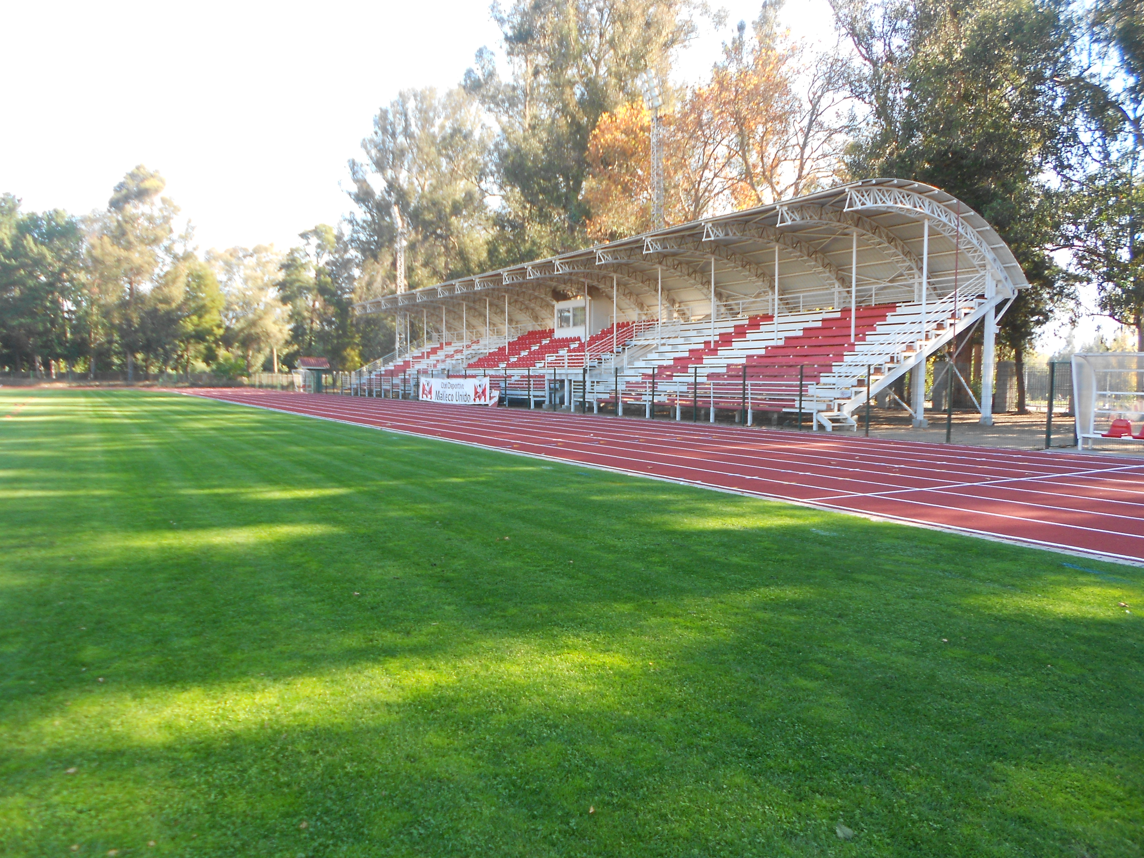 Picture of the Stadium of Angol